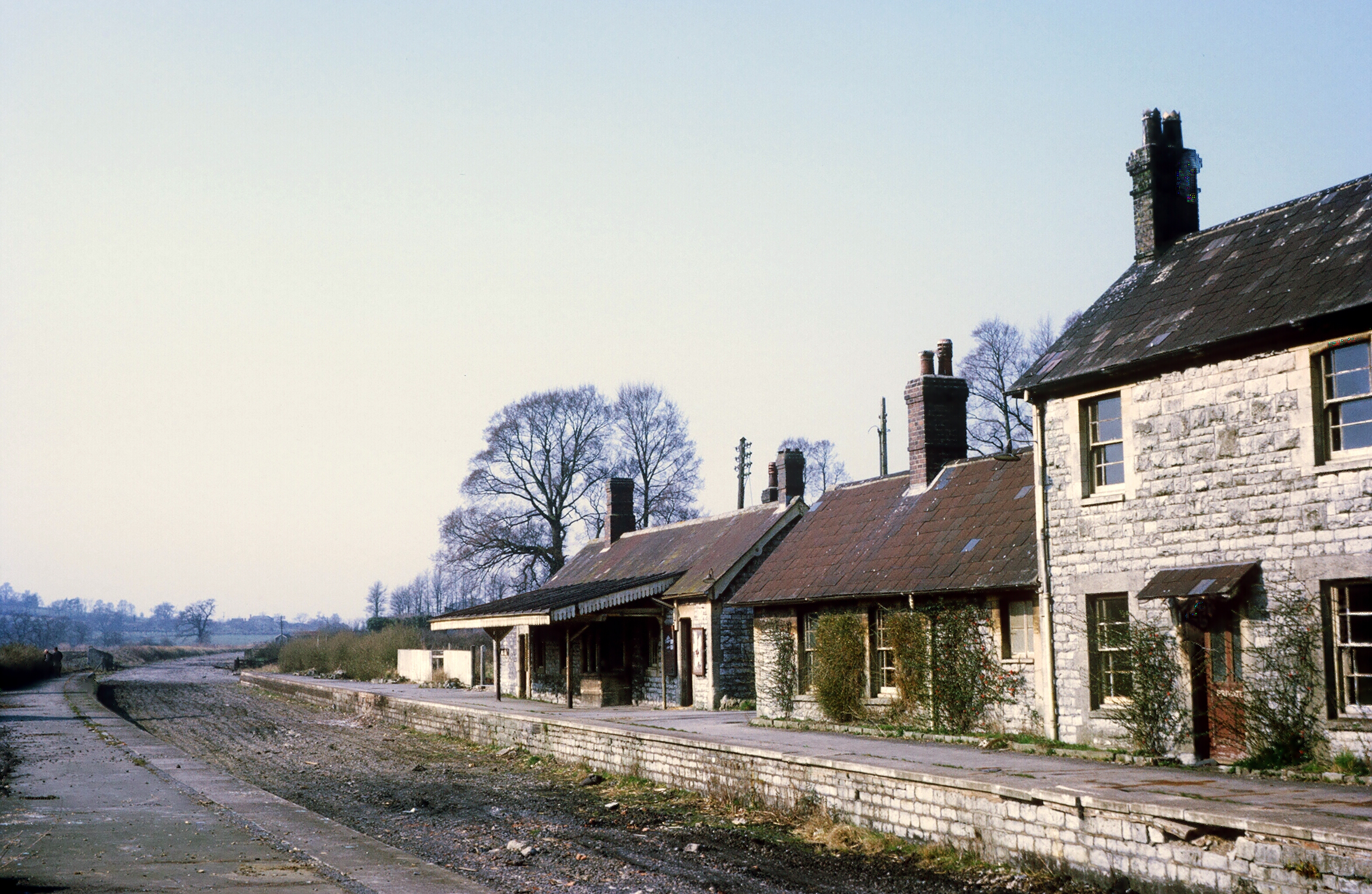 Evercreech Junction station on the Somerset and Dorset Joint Railway in early 1969, three years after closure